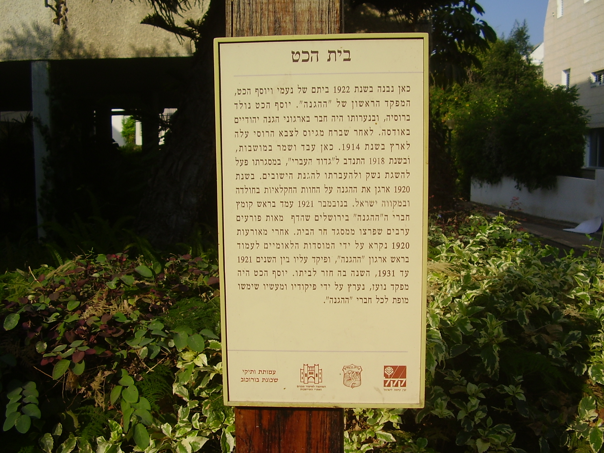 memorial plaque to yosef hecht in borochov neighborhood, giv'atayim לוחית זיכרון ליוסף הכט בשכונת בורוכוב בגבעתיים